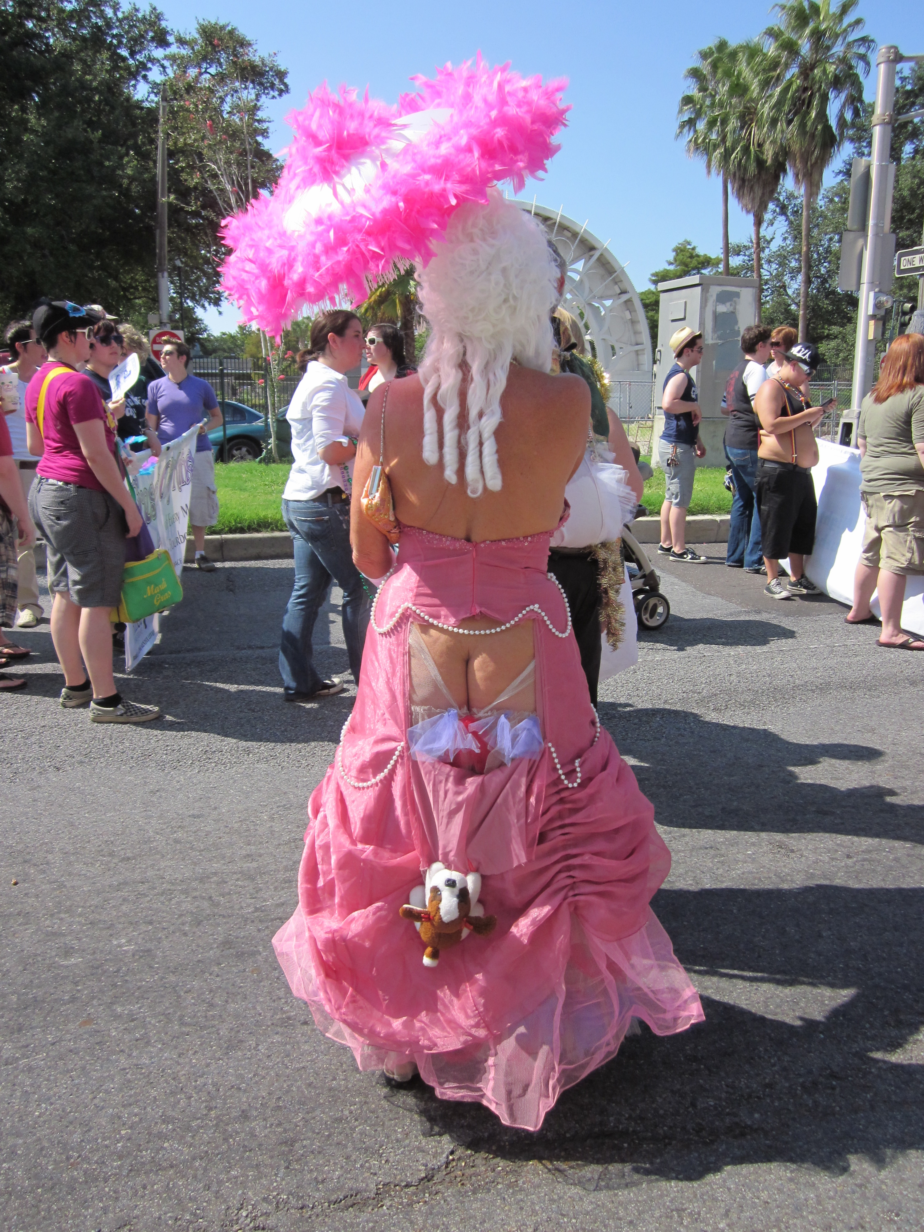 Southern Decadence, French Quarter, New Orleans. Costumer on Rampart Street.